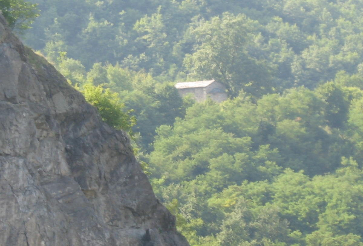 Church of saint Nicolas in Šumnik,Raška municipality,Serbia.